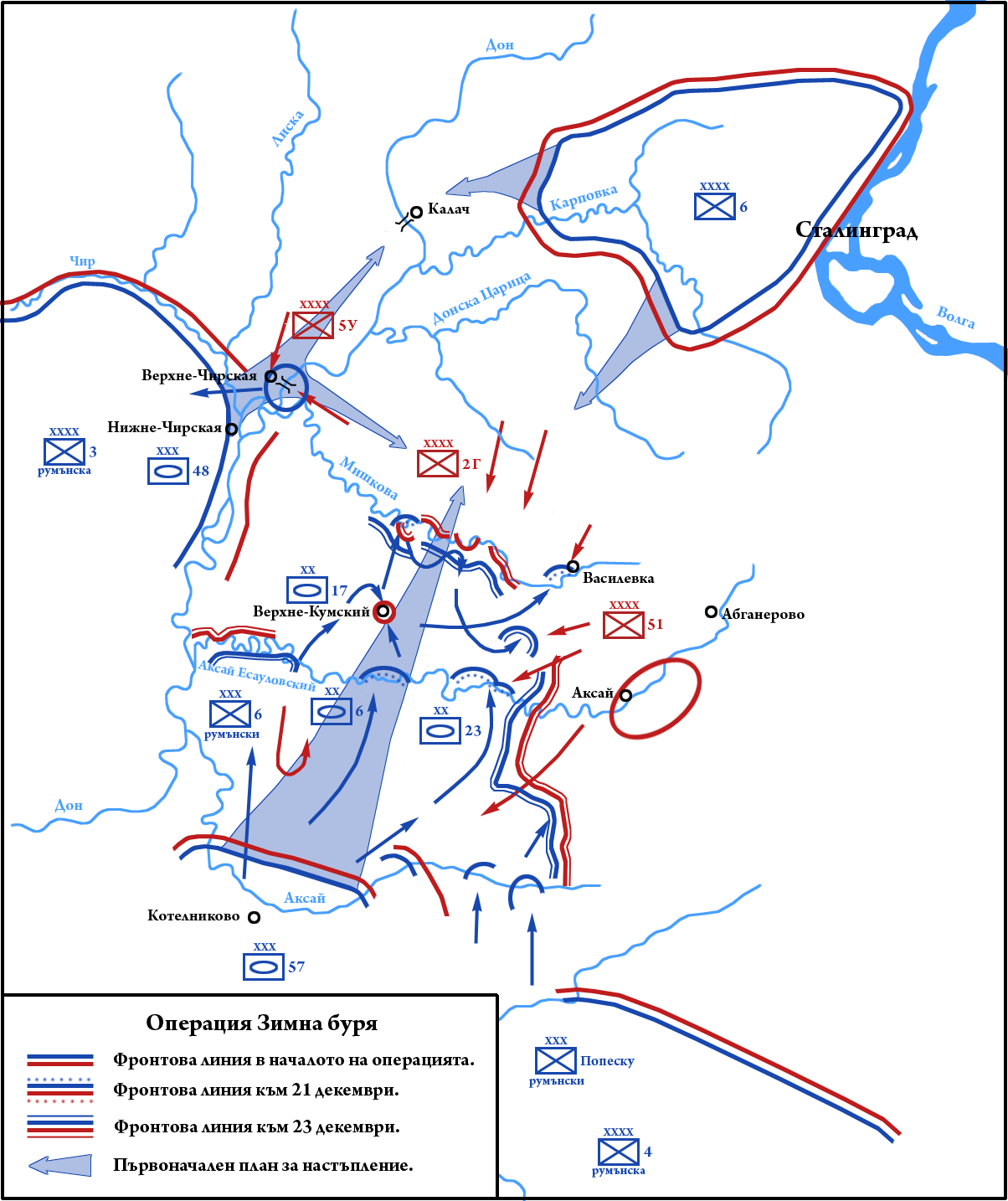 Operation Winter Storm, Eastern front, World War 2. 12 December - 23 December 1942